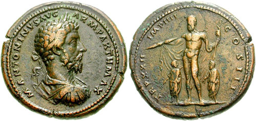 MARCUS AURELIUS. 161-180 AD. Æ Medallion (40mm, 51.78 gm). Struck 168 AD. M ANTONINVS AVG ARM PARTH MAX, laureate, draped, and cuirassed bust right, seen from behind / TR P XXII IMP IIII COS III, Jupiter standing facing, holding thunderbolt and sceptre; Aurelius and Verus flanking him below. Gnecchi 52 (pl. 63, 3 -- this coin illustrated); MIR 18, 1040-1/37; Cohen 886. Choice VF, dark brown patina. Very rare. ($7500) From the Tony Hardy Collection. Ex Leu 71 (24 October 1997), lot 405; Niklovitz Collection (Hamburger, 19 October 1925), lot 1076; Berlin Cabinet (deaccessioned as duplicate in 1910).